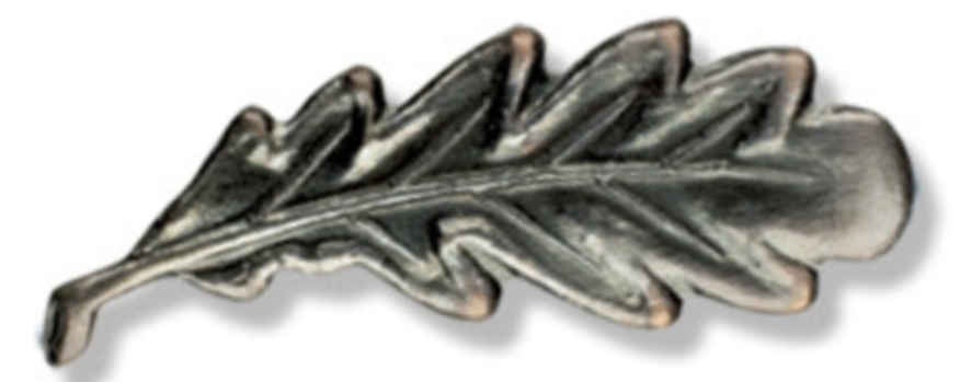 British mention in dispatches silver oak leaf worn on the appropriate campaign medal ribbon. Introduced in 1993.